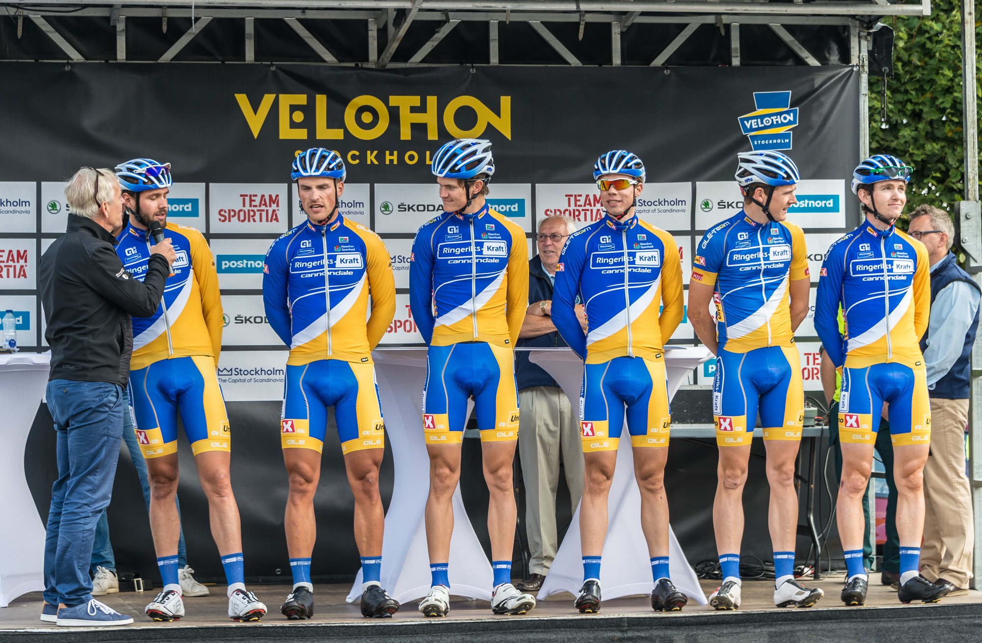 Velothon Stockholm in september 2015.